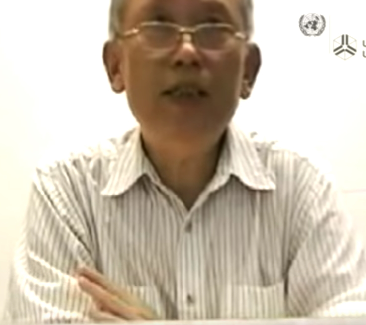 Wang Shaoguang, Chinese political scientist, pictured in 2013